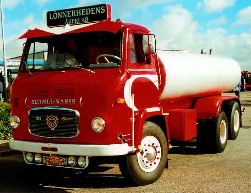 Scania-Vabis LBS76 Tanker 1968